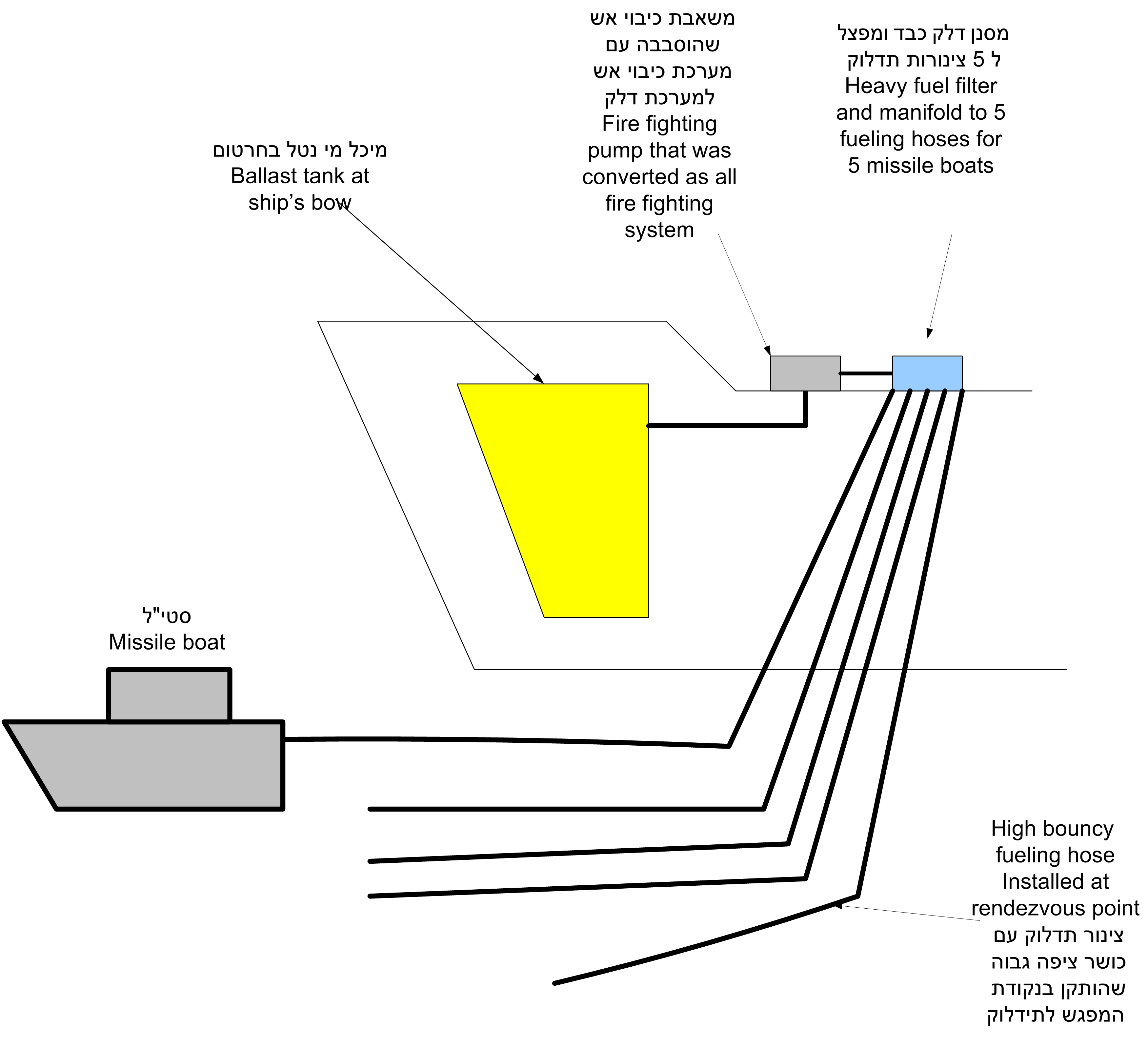 Feuling system that was installed in MV-Lea's bow designed and implemented by Naval-Architect Edmond Wilhelm Brillant Europe Lines ZIM